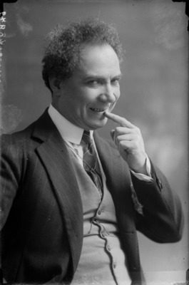 Italian actor Angelo Musco